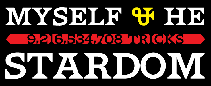 The font HWT Van Lanen by Matthew Carter. Released both in digital and in wood type by a museum storing old wood type.